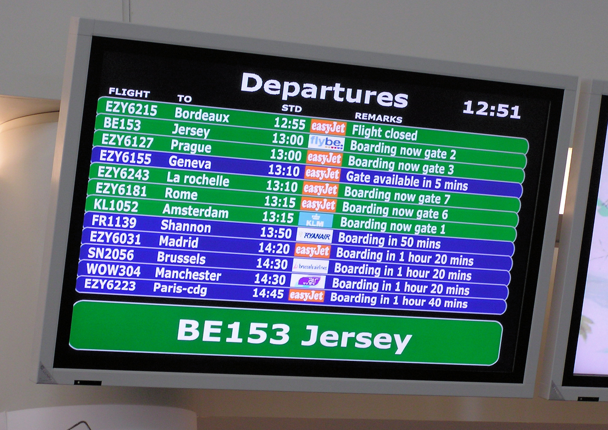 The departures board at Bristol International Airport, Bristol, England on 10th June 2007. Airlines shown are easyJet, flybe, KLM, Ryanair, Brussels Airlines, Ryanair and Air Southwest.